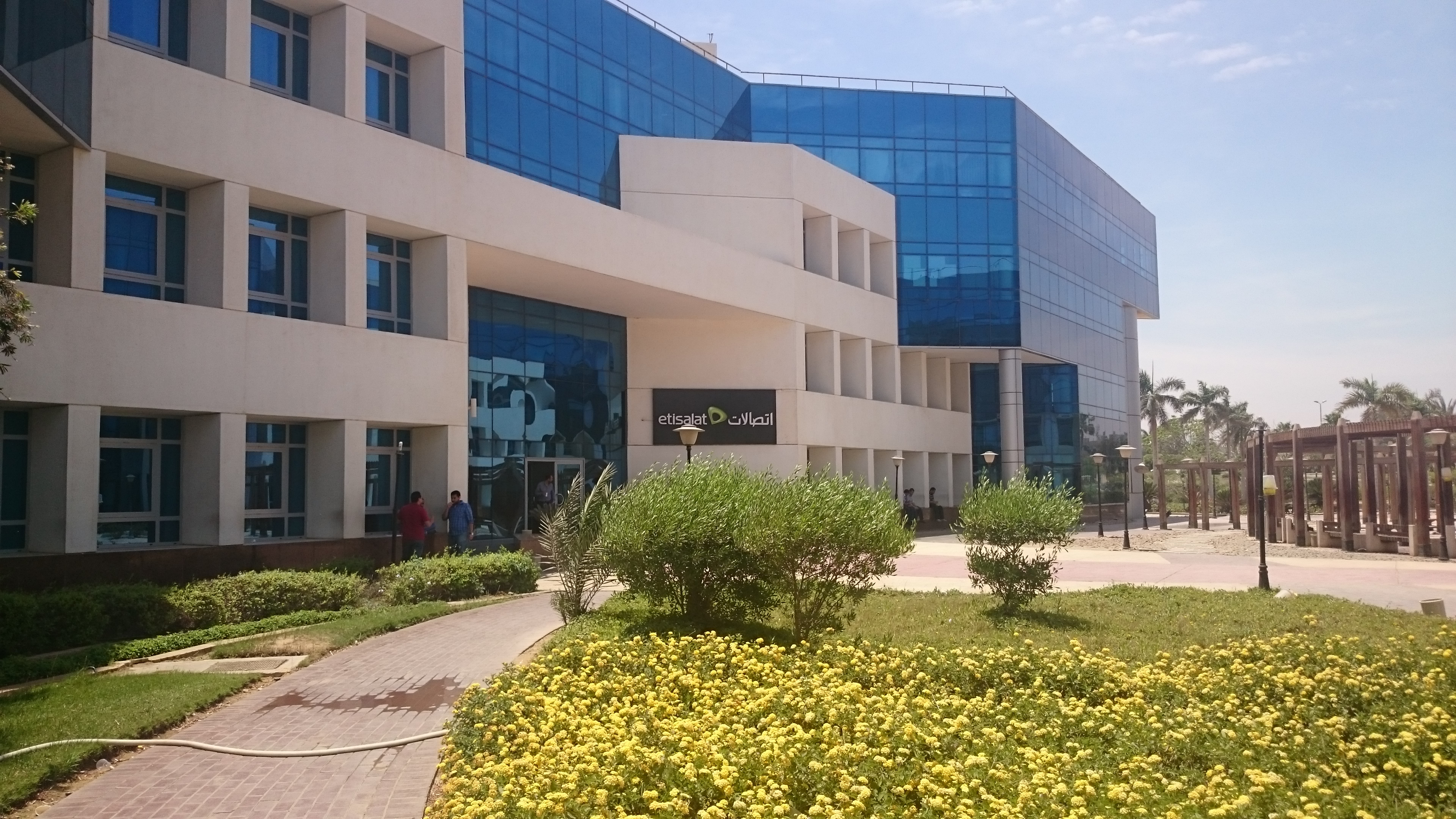 Etisalat HQ - - Smart Village - Egypt